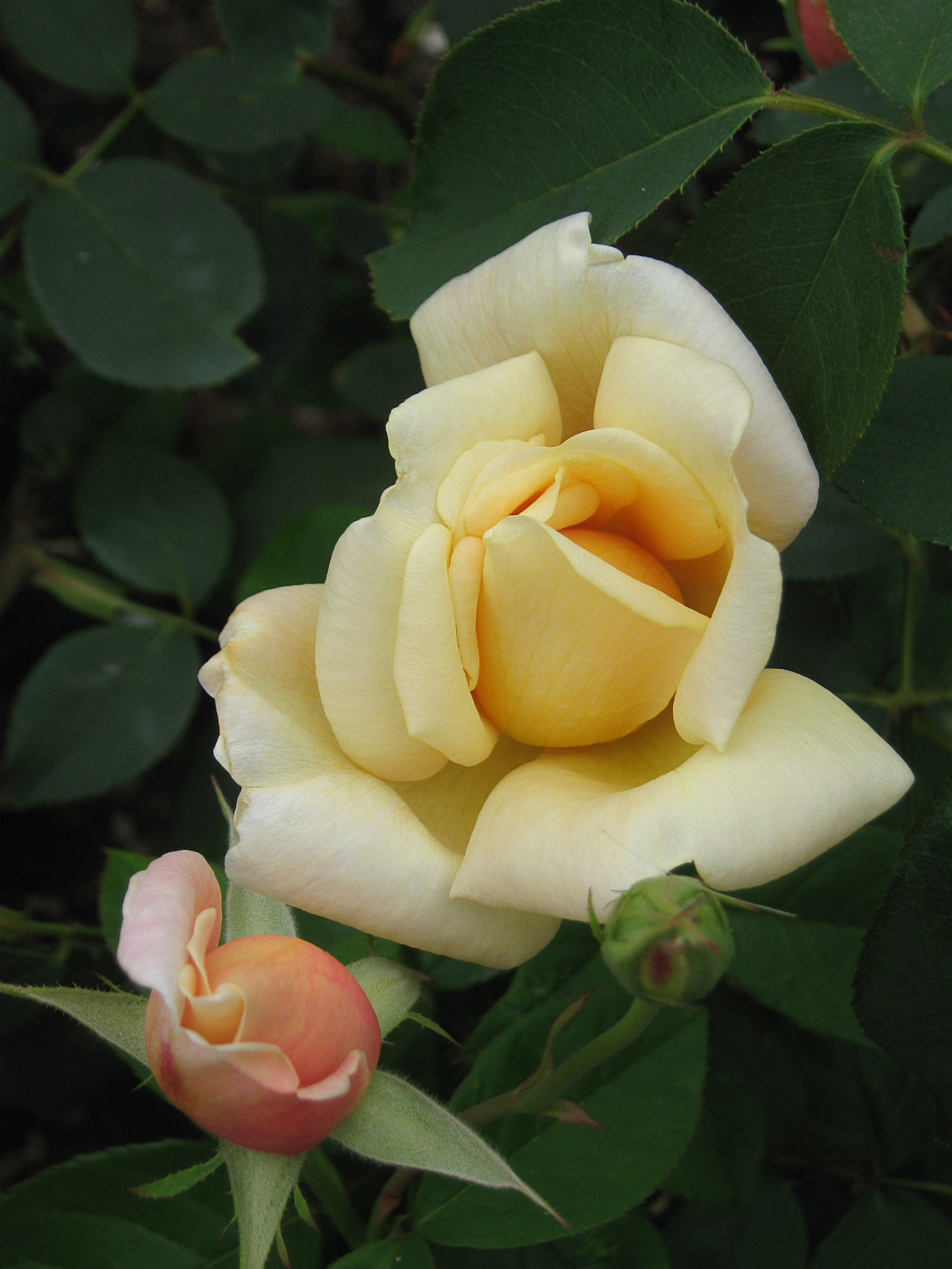 Rose 'Duchess of Wellington', Hybrid Tea by Dickson 1909; photographed in the Nieuwesteeg Heritage Rose Garden, Maddingley Park, Bacchus Marsh, Victoria